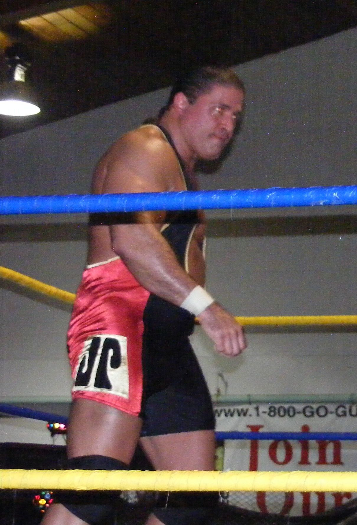 Professional wrestler Jim Powers, circa 2008